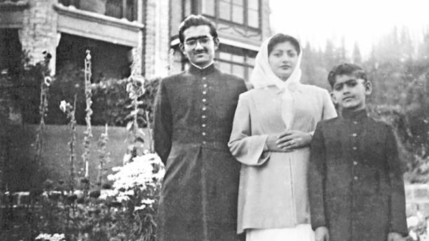 Rehman Sobhan with his mother Hashmat Ara Begum and brother Farooq Sobhan in Nathia Gali, 1952